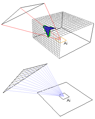 Hemicubes